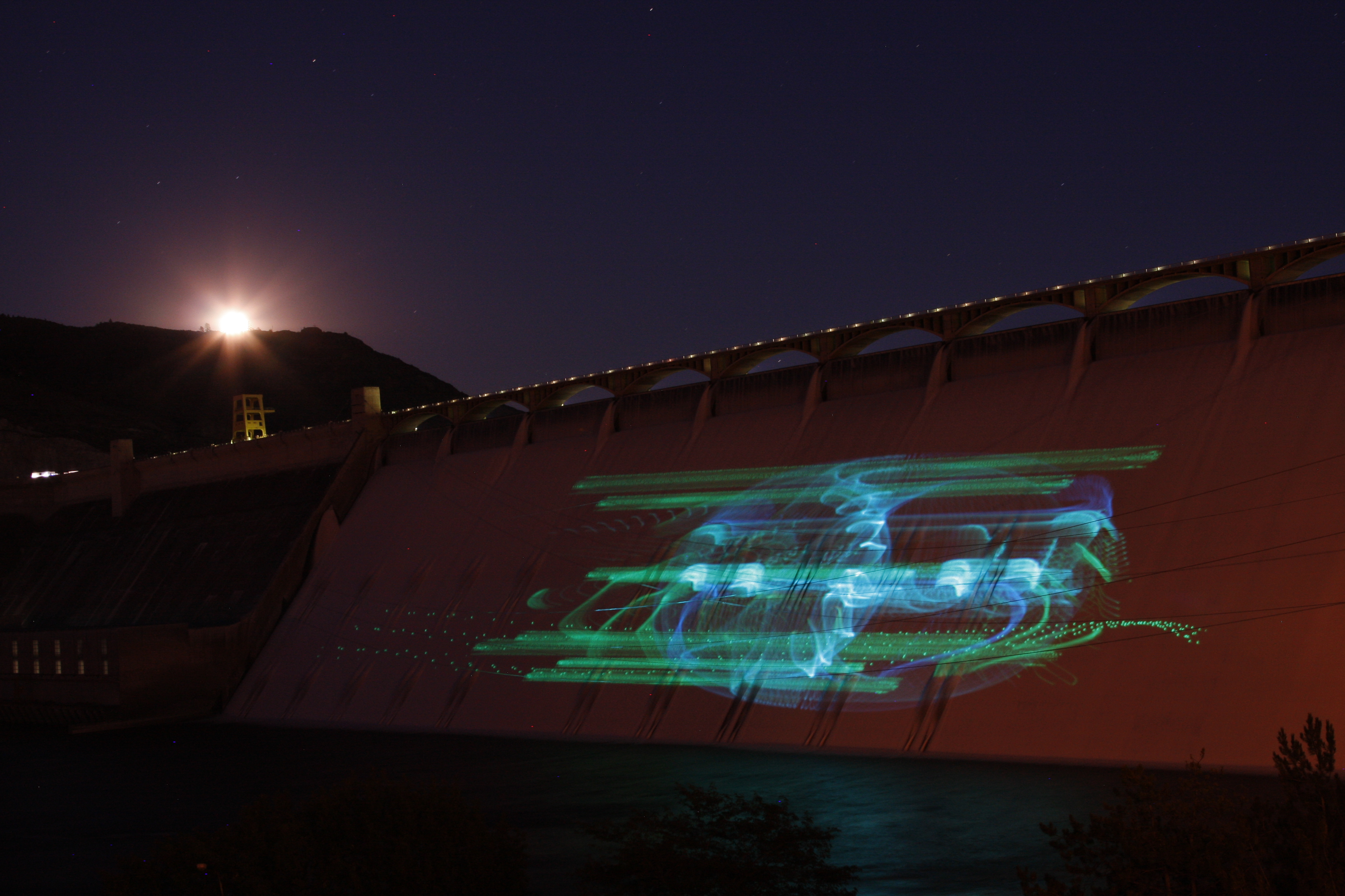 This is a long-exposure photo of the outdoor laser show at Grand Coulee Dam, Washington, USA, taken on August 3rd, 2012, by John Masterson. Laser_Light_Show_(Grand_Coulee_Dam)